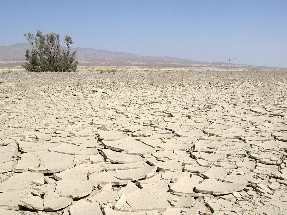 A view of Karakum Desert, in Turkmenistan